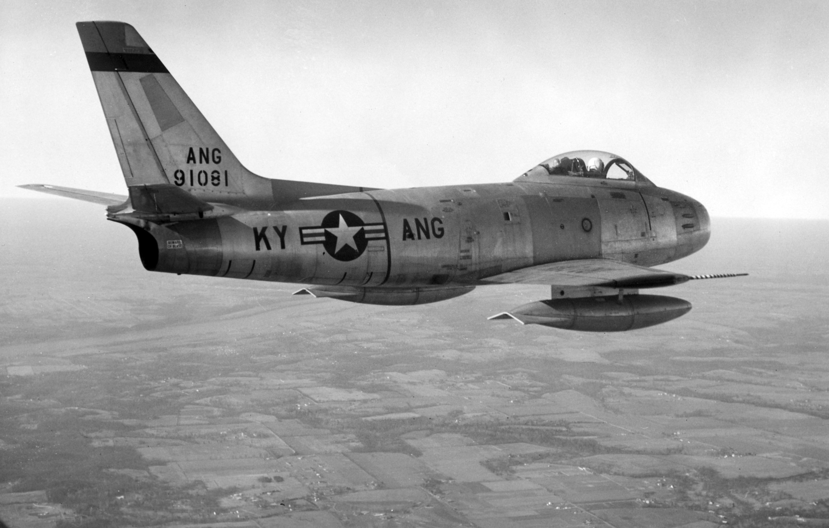 A U.S. Air Force North American F-86A-5-NA Sabre (s/n 49-1081) from the 165th Fighter Squadron, 123rd Fighter Group, Kentucky Air National Guard, which flew the F-86 from 1956 to 1958.